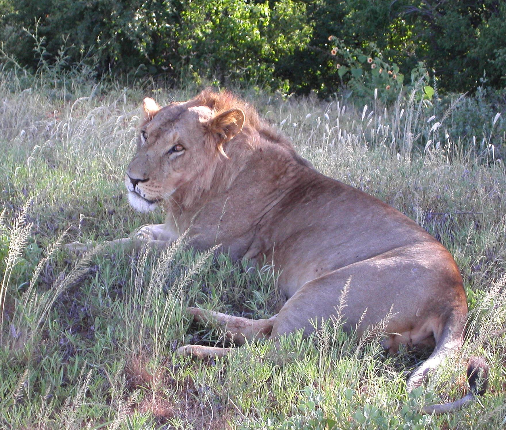 Lion male (Panthera leo) at Samburu National Reserve, Kenya